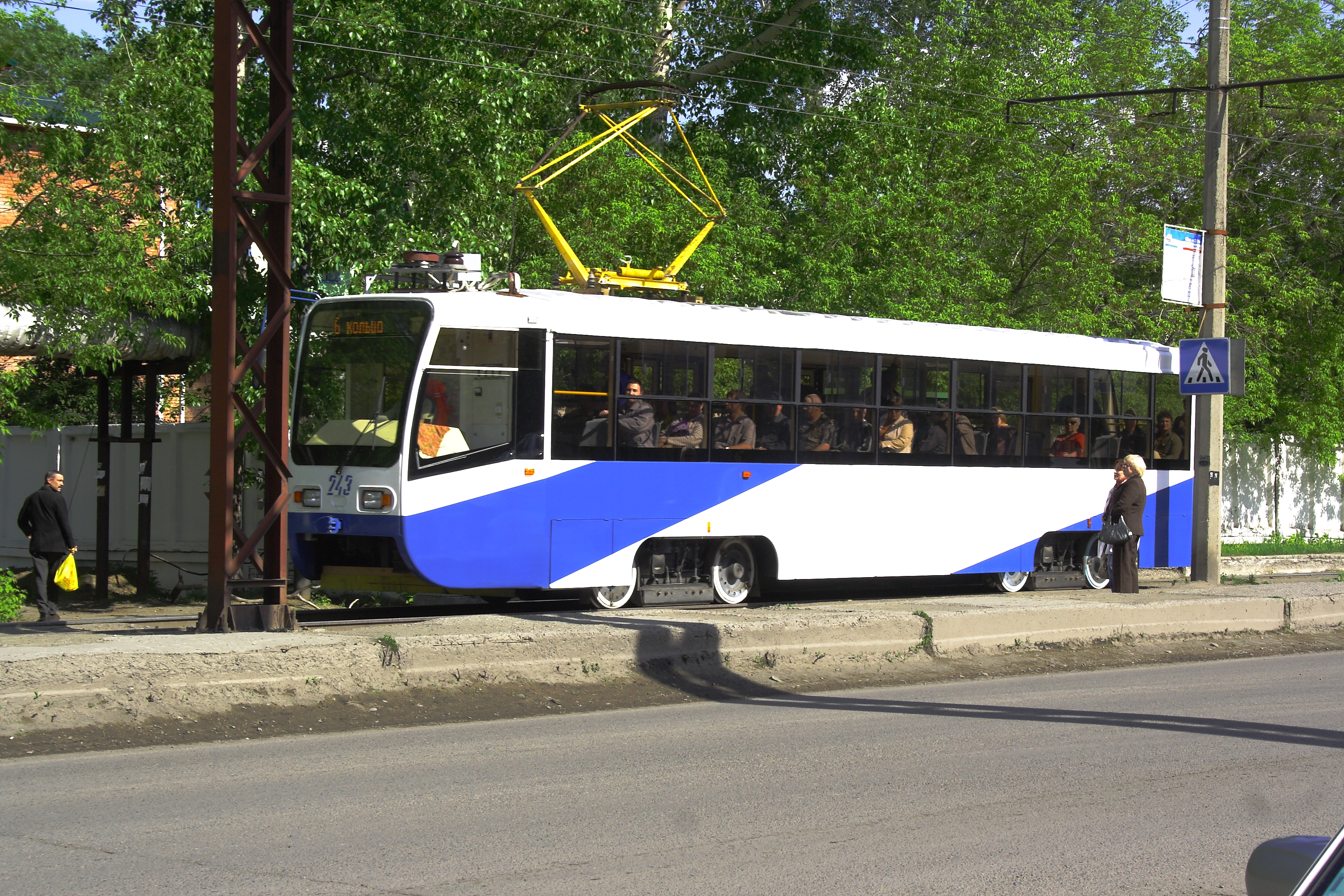 Tram type 71-619 in Biysk